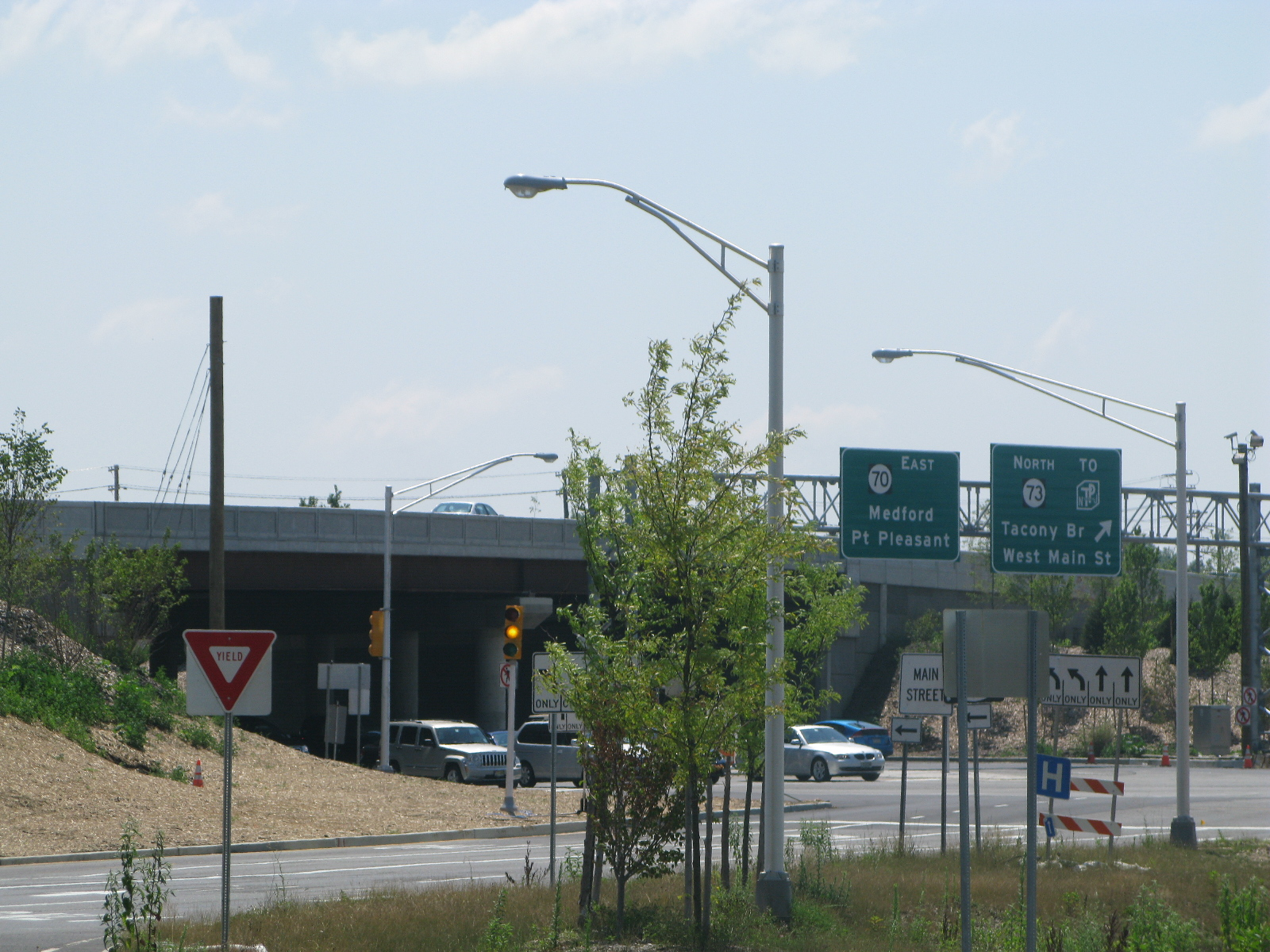 The former Marlton Circle. This is a photo of a new interchange the NJDOT built here at the intersection of Route 73 and Route 70 in Marlton, New Jersey. Route 73 is the overpass crossing over Route 70.